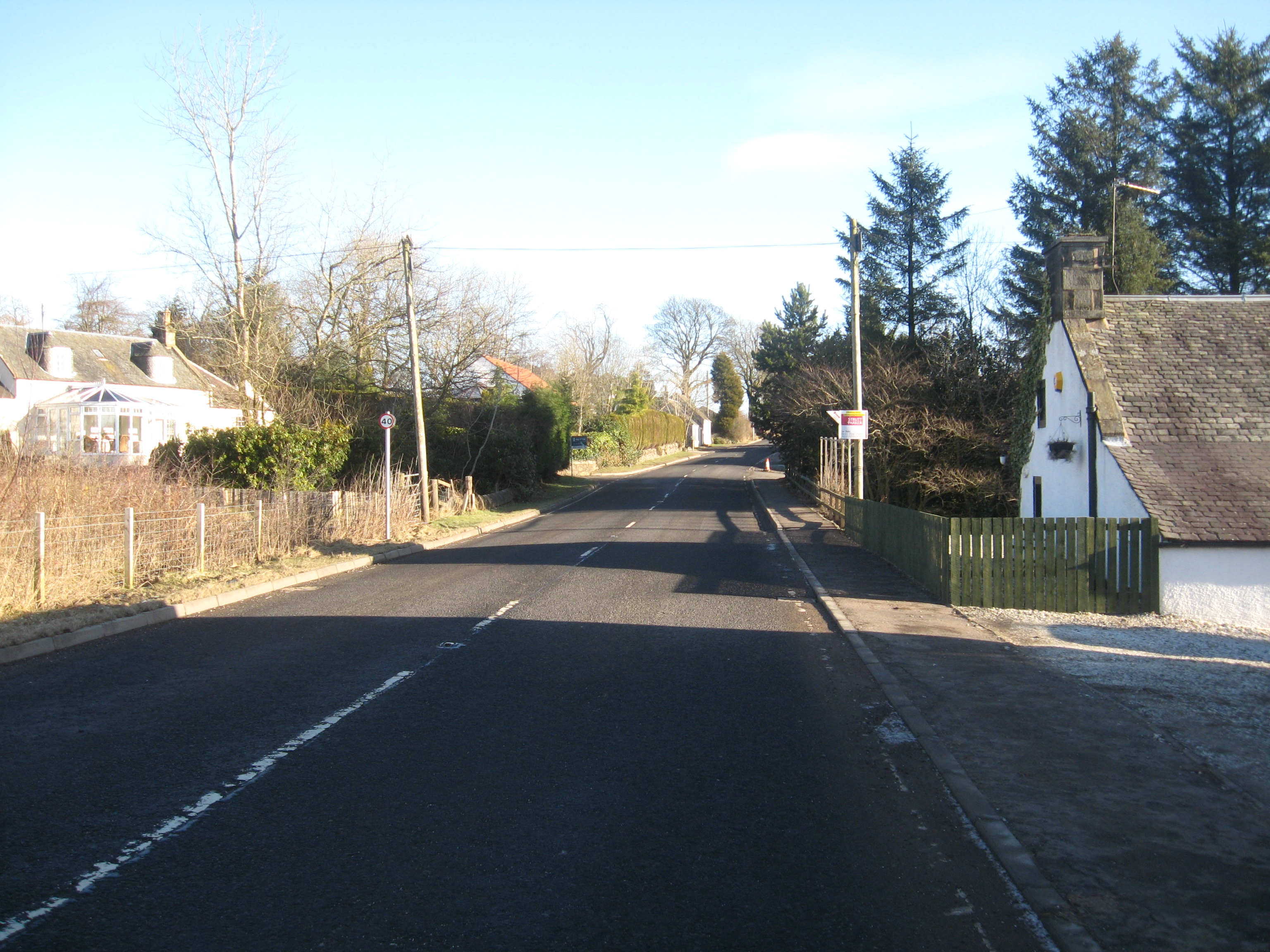 The A91 at the village Carnbo